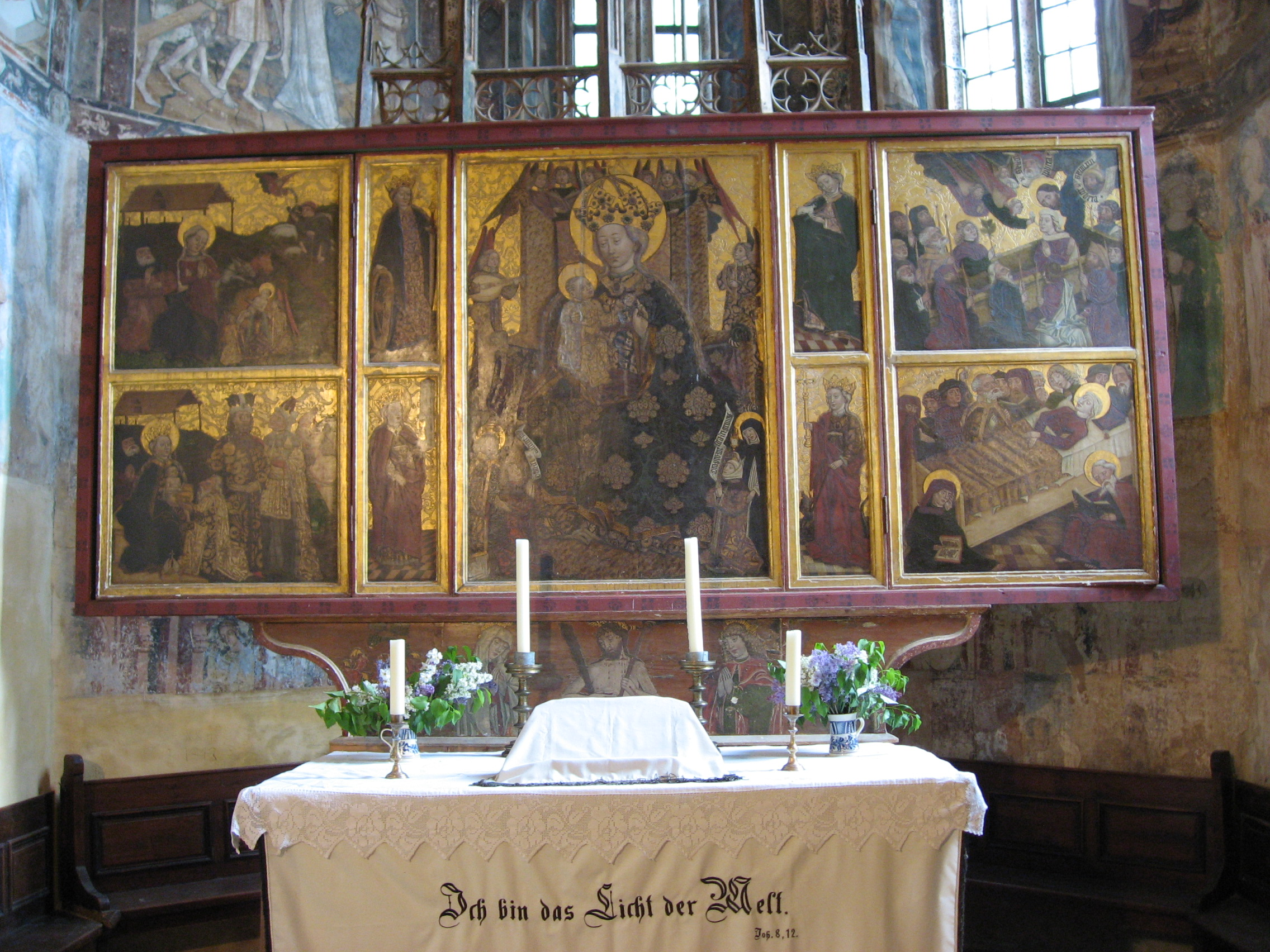 altar of the Saxon fortified church in Mălâncrav (German: Malmkrog, Hungarian: Almakerék)